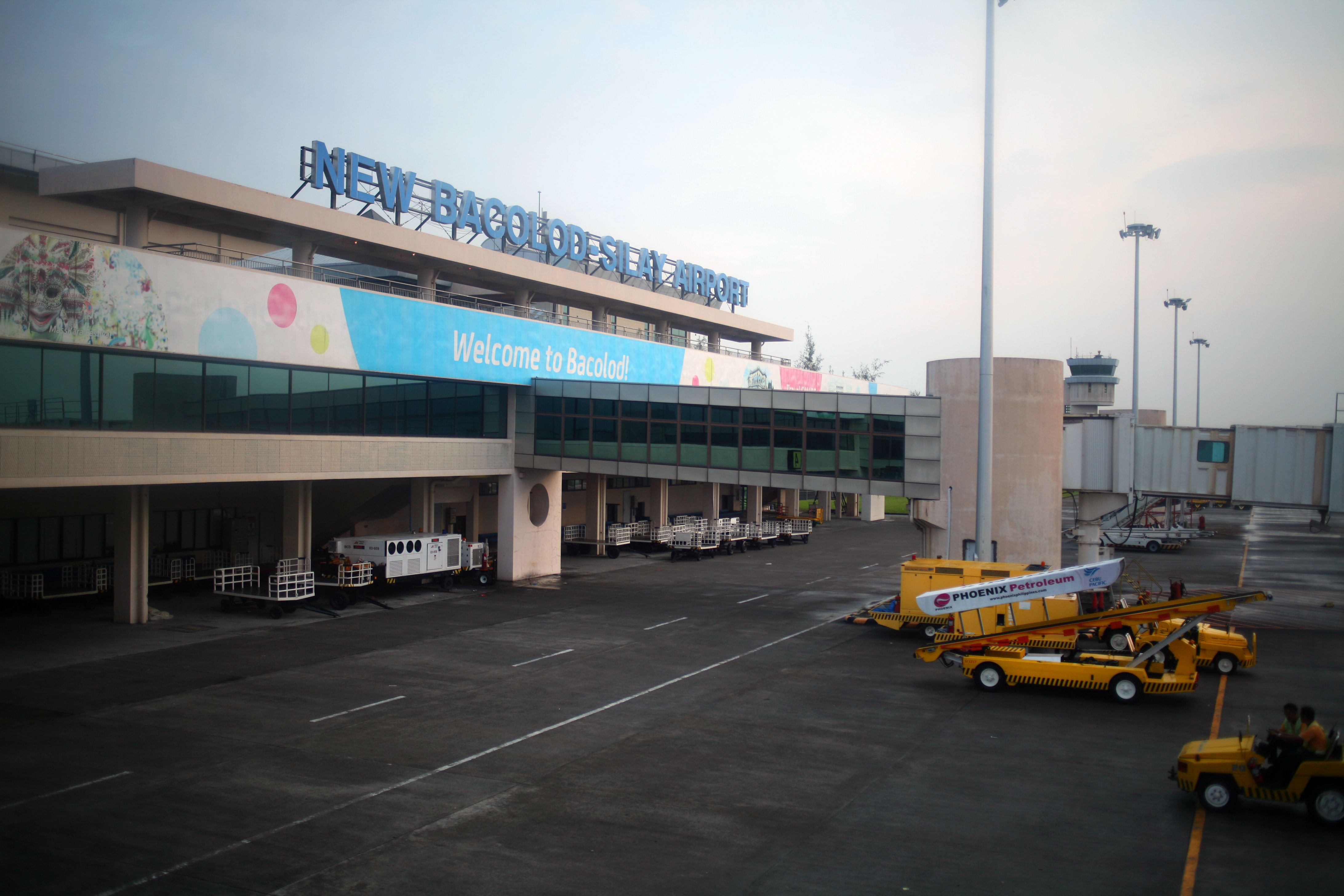 Bacolod-Silay airoport, Negros Occidental, Philippines